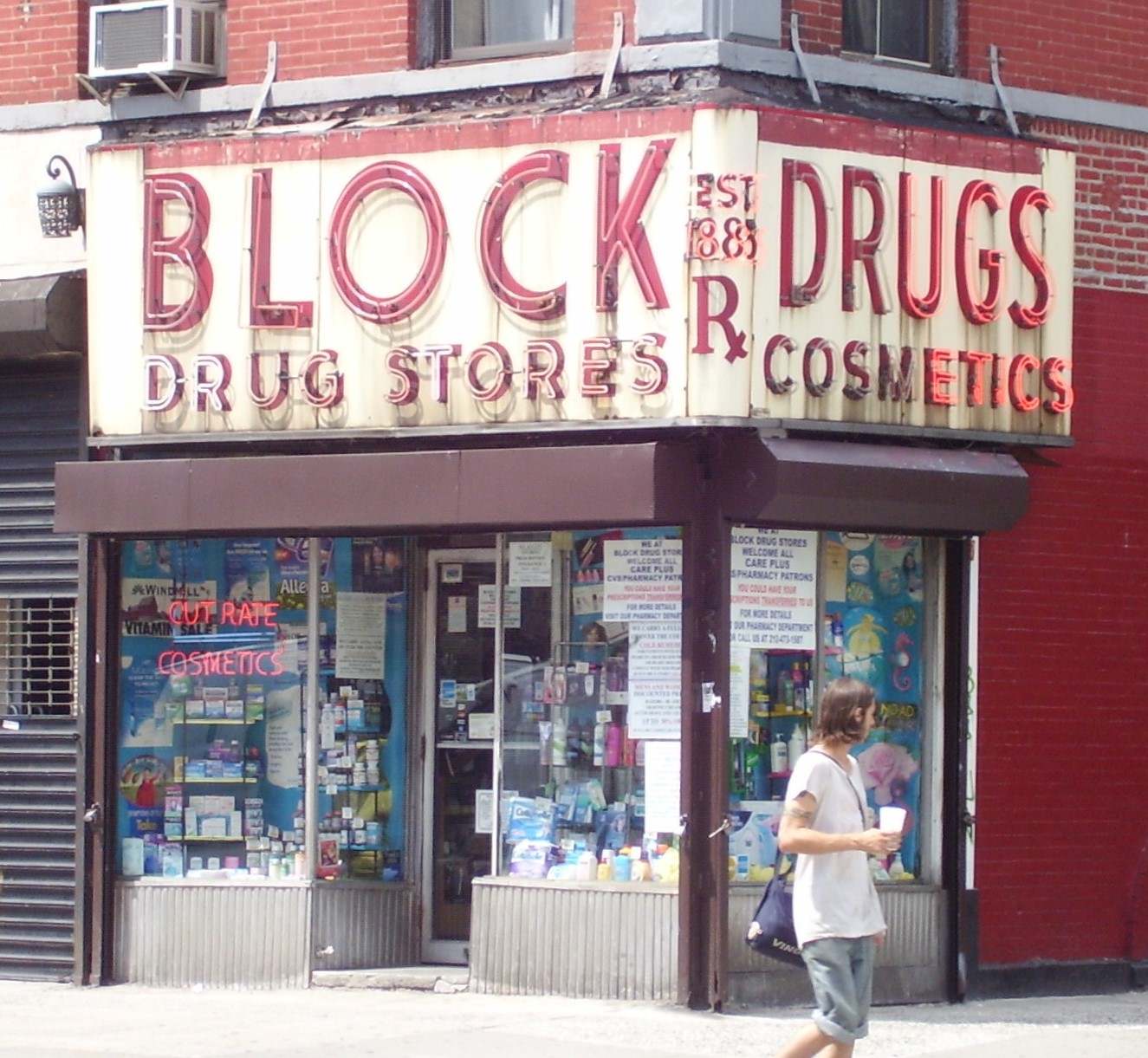 The Block Drug Store at 101 Second Avenue at the corner of East 6th Street in the East Village neighborhood of Manhattan, New York City was founded in 1883, its neon sign was installed in 1945. The building it is located in was built c.1877-80 by Julius Boekell and was designed in the Queen Anne style . "In this age of big, homogenous chain drugstores, it' rare to find one family-owned, especially one holding on since 1885 [sic]. Get a load of the vintage sign wrapping the facade..." It is located within the East Village/Lower East Side Historic District (Source: AIA Guide to NYC (5th ed.) and "East Village/Lower East Side Historic District Designation Report")